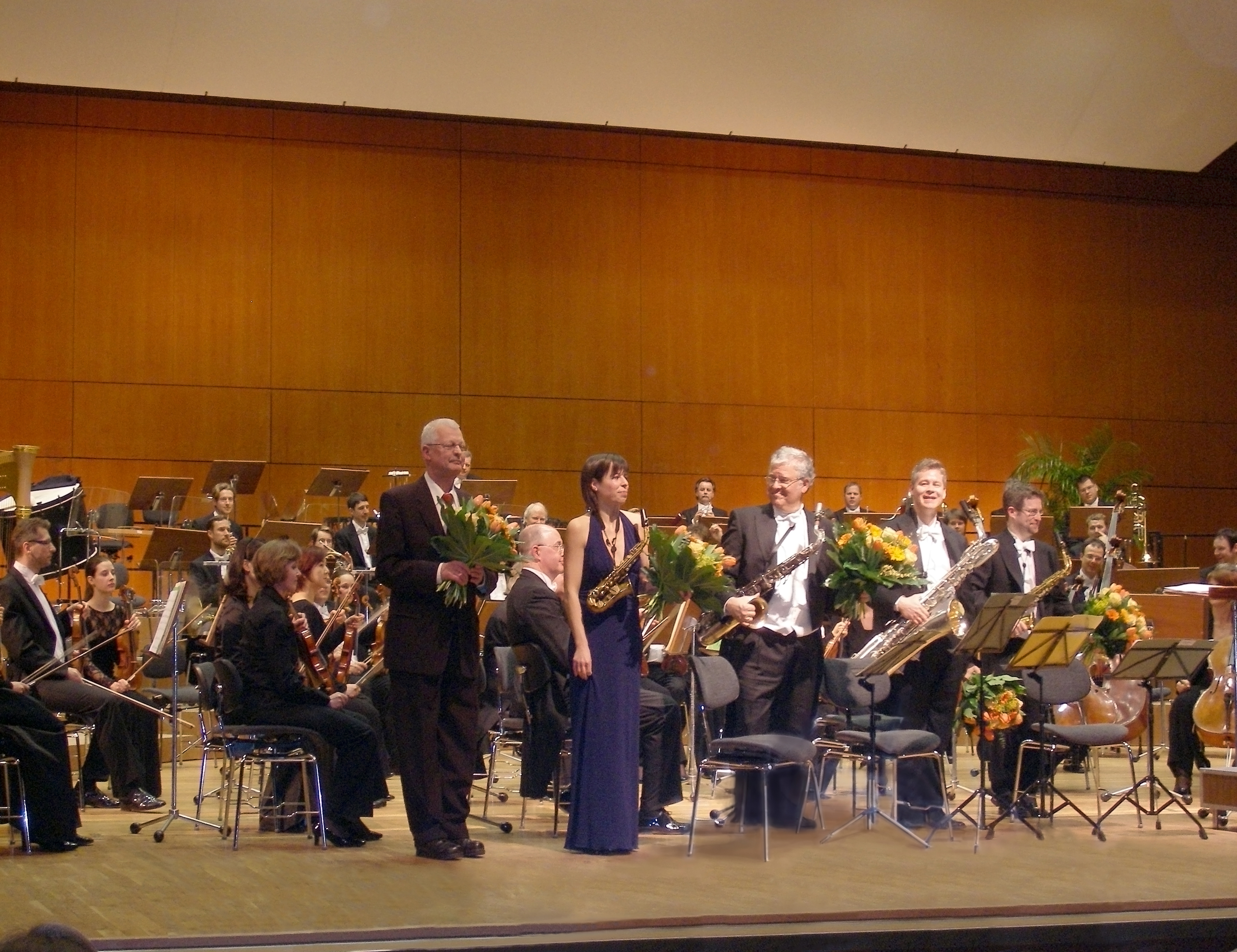 Rainer Lischka gemeinsam mit den Solisten des Raschèr Saxophone Quartet nach einer Aufführung des „Konzertes für Saxophon-Quartett und Orchester“ am 6. März 2010 im Dresdner Kulturpalast